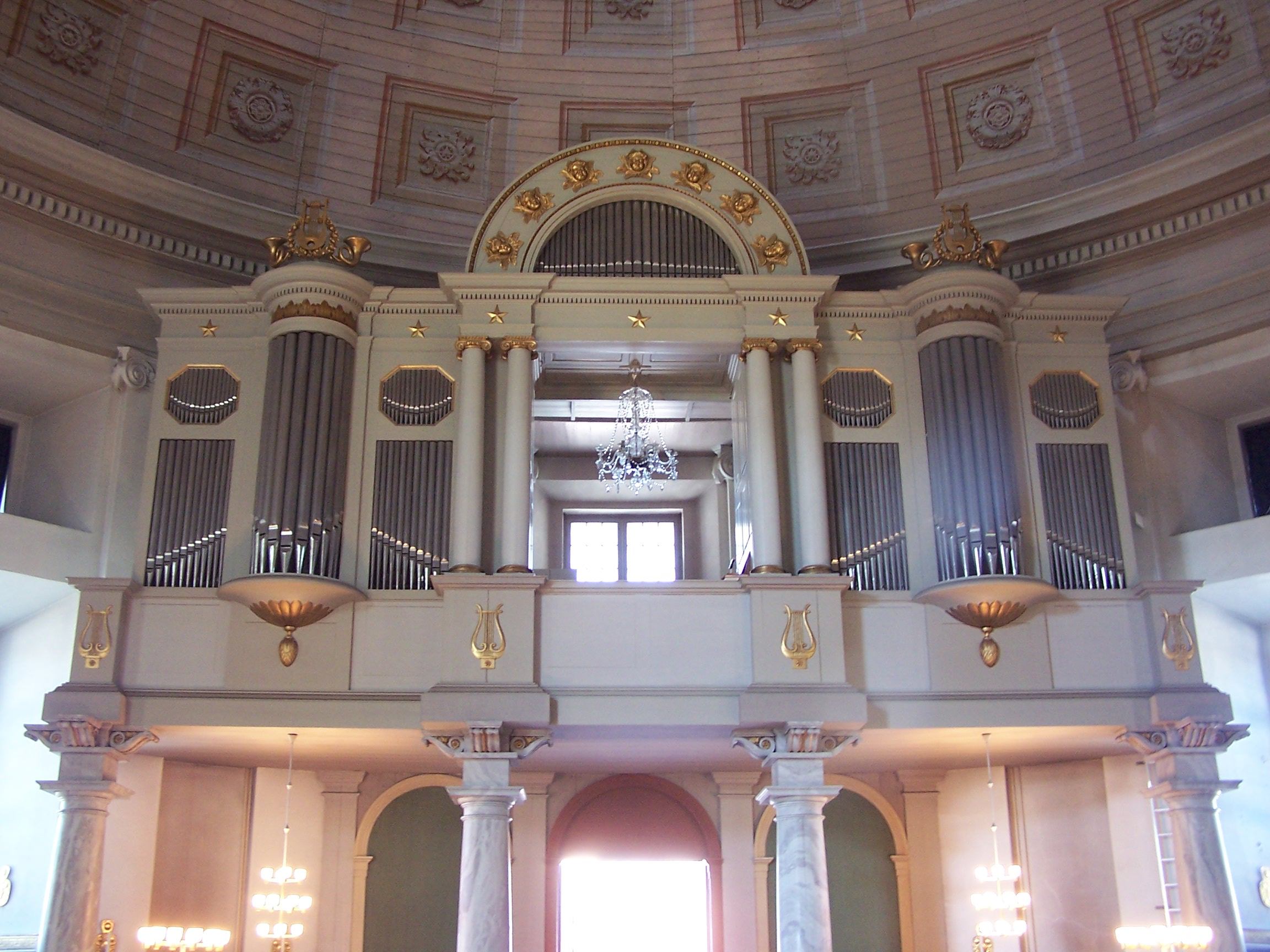 Organ in Trefaldighetskyrkan (Trinity church) in Karlskrona